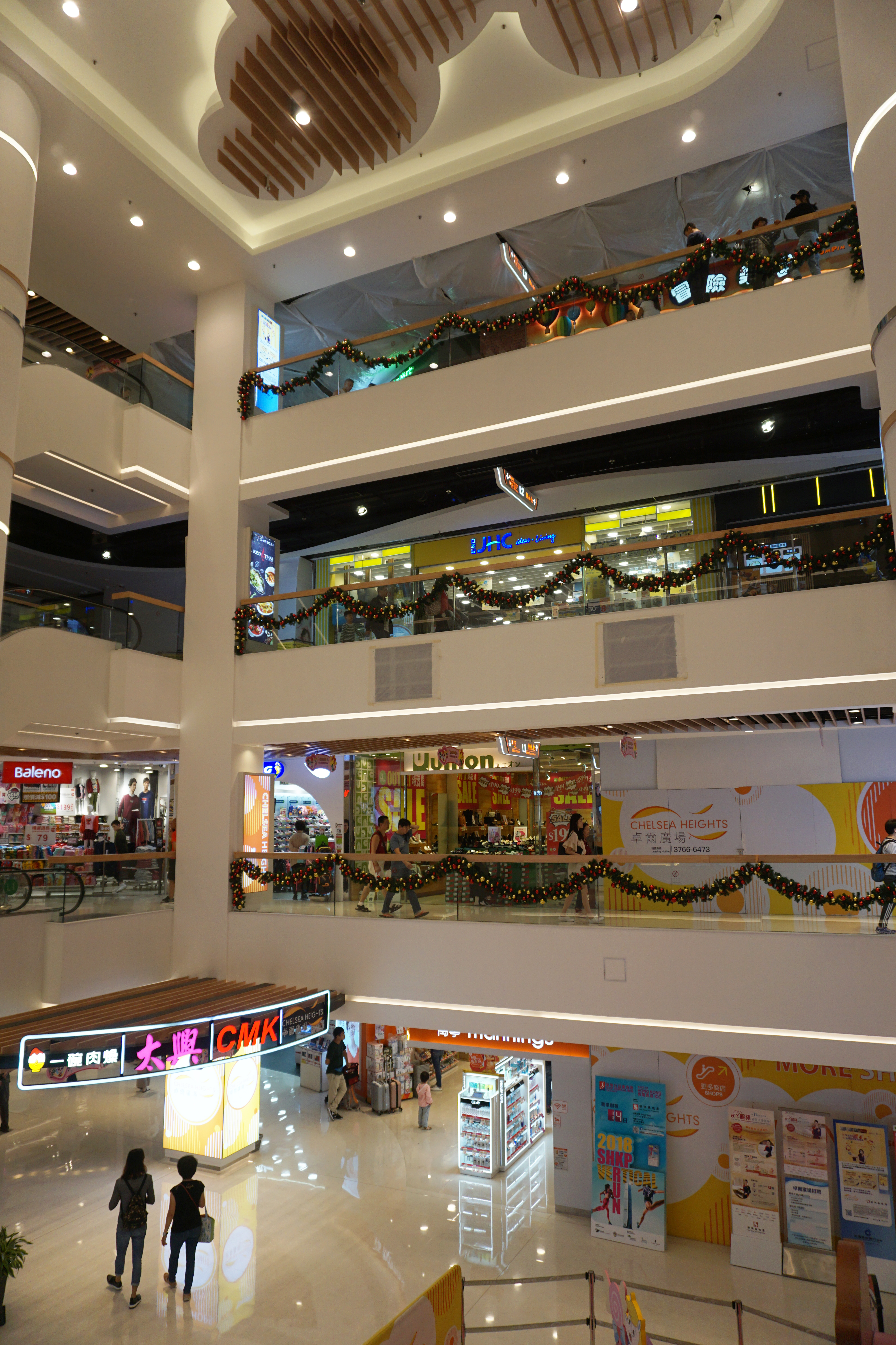 Chelsea Heights in Tuen Mun, Hong Kong.